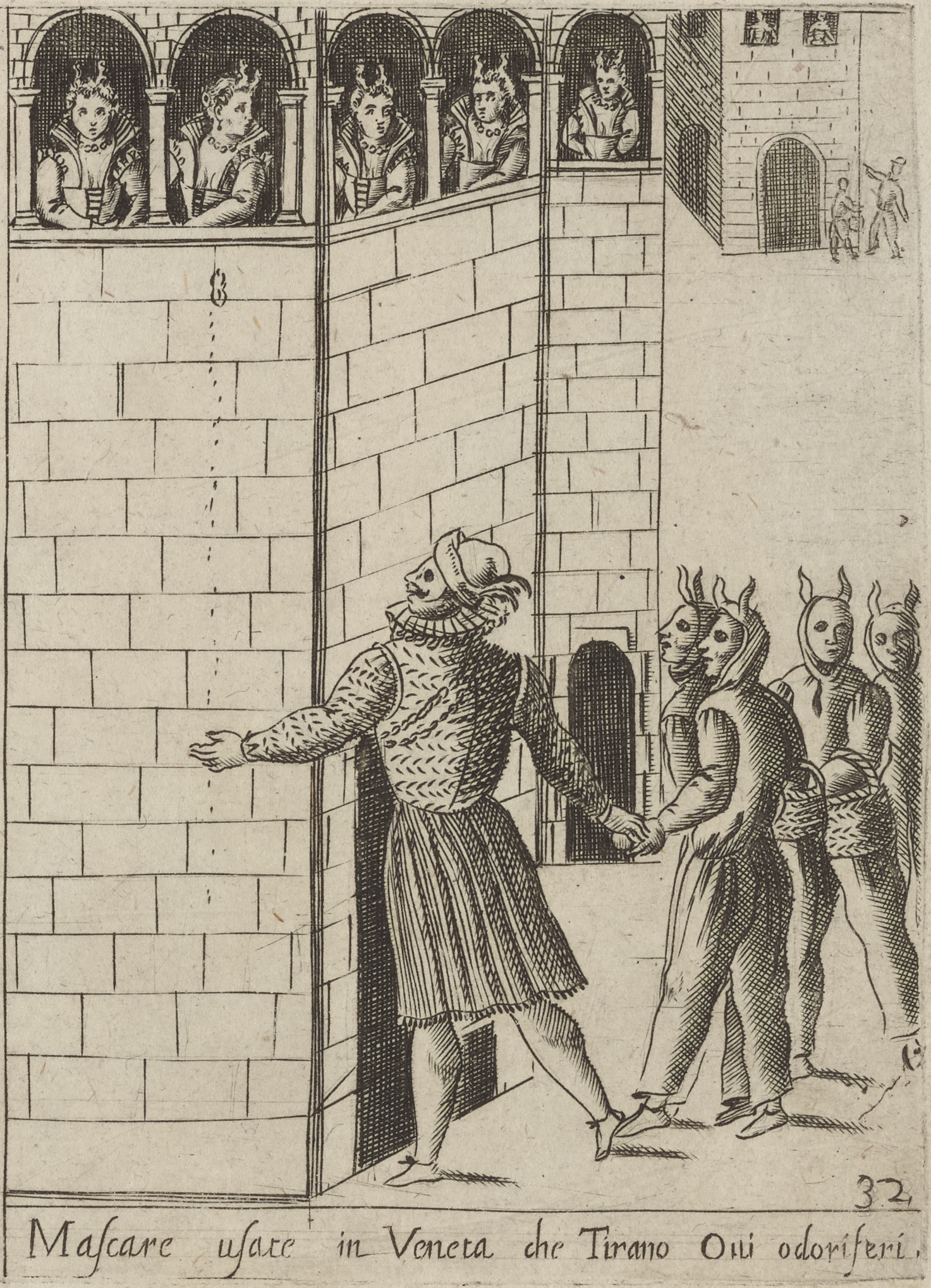 This c. 17th-century etching shows five masked men, who are standing outdoors and holding eggs and baskets of eggs, looking up at five women, who are looking down at them from the windows of a building. The eggs are "ovi odoriferi", or eggshells filled with rosewater perfume. These eggs were traditionally thrown during the Carnival of Venice.